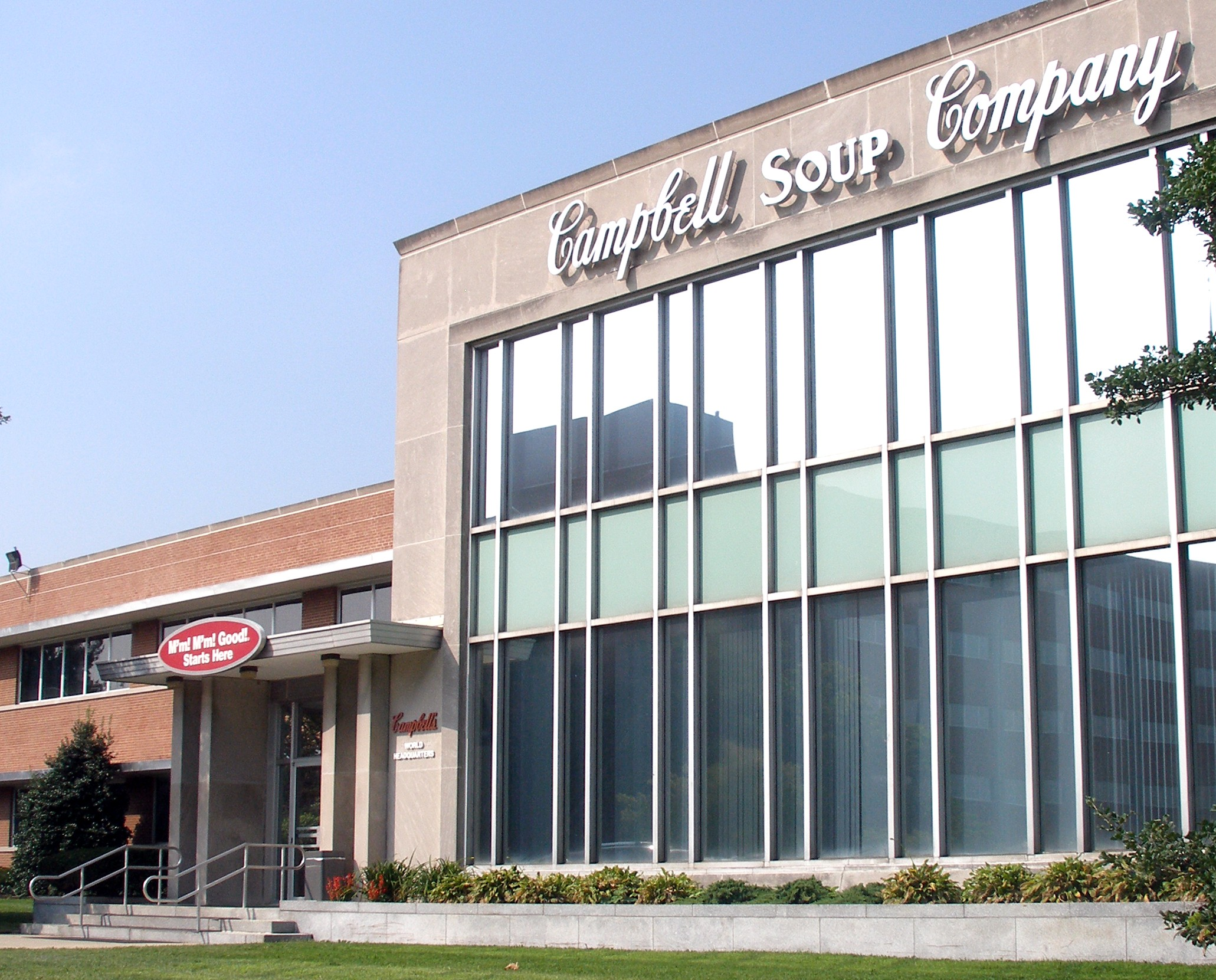 The entrance to the sprawling Campbell Soup Company headquarters complex at Campbell Place in Camden. Photographed by user Coolcaesar on August 30, 2007.